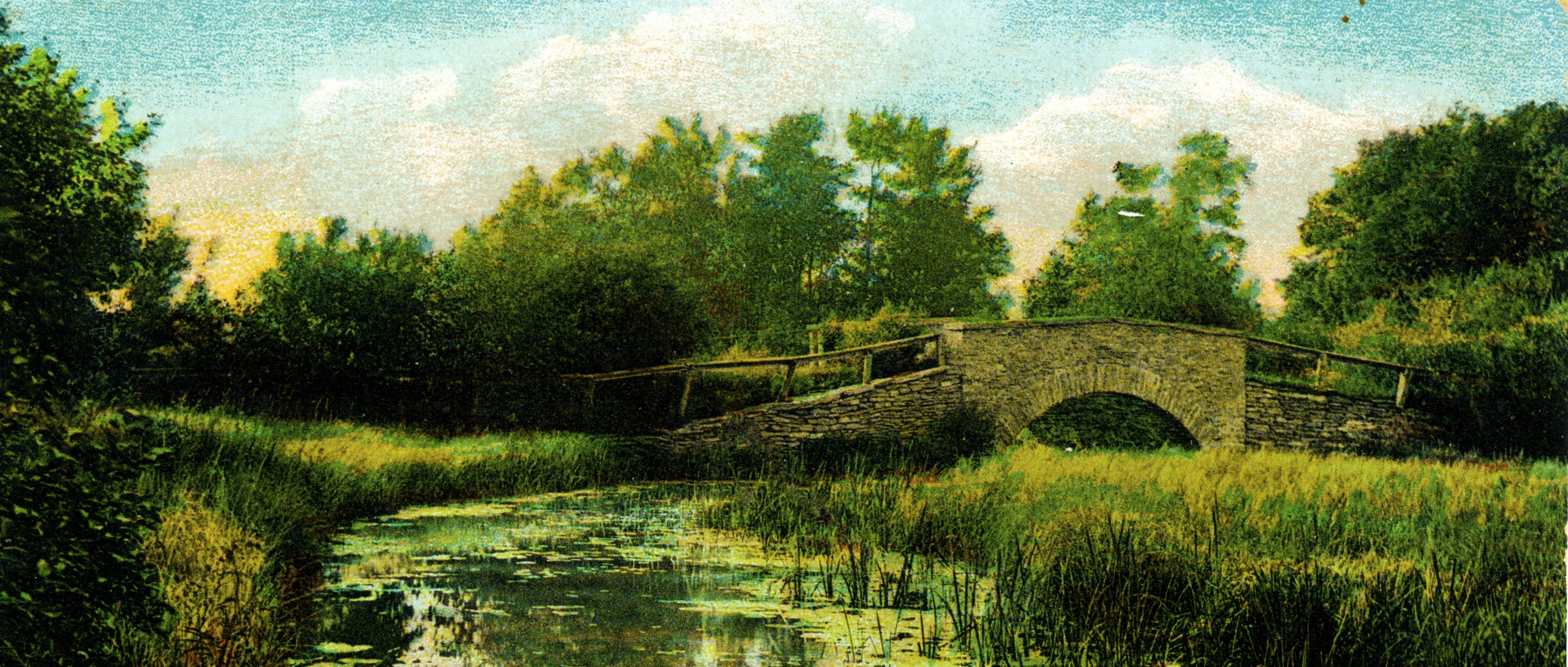 In the Town of Hounsfield Jefferson County NY. From an early 20th century postcard, in the public domain.